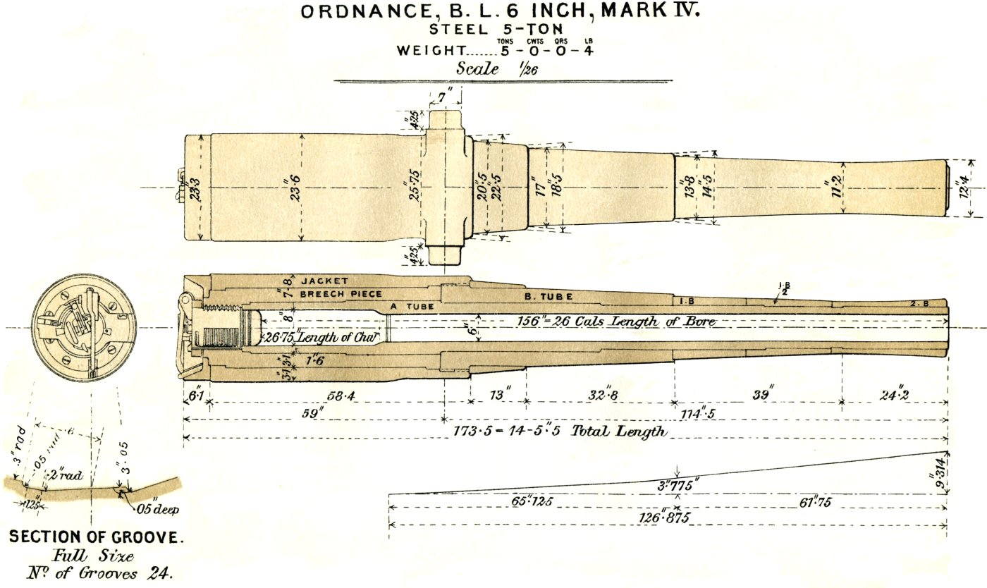 Diagram showing barrel construction and dimensions of British BL 6 inch Mk IV naval gun.